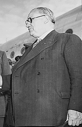 Ernest Bevin attending the Potsdam Conference as Foreign Secretary in 1945. Cropped version of US government image.